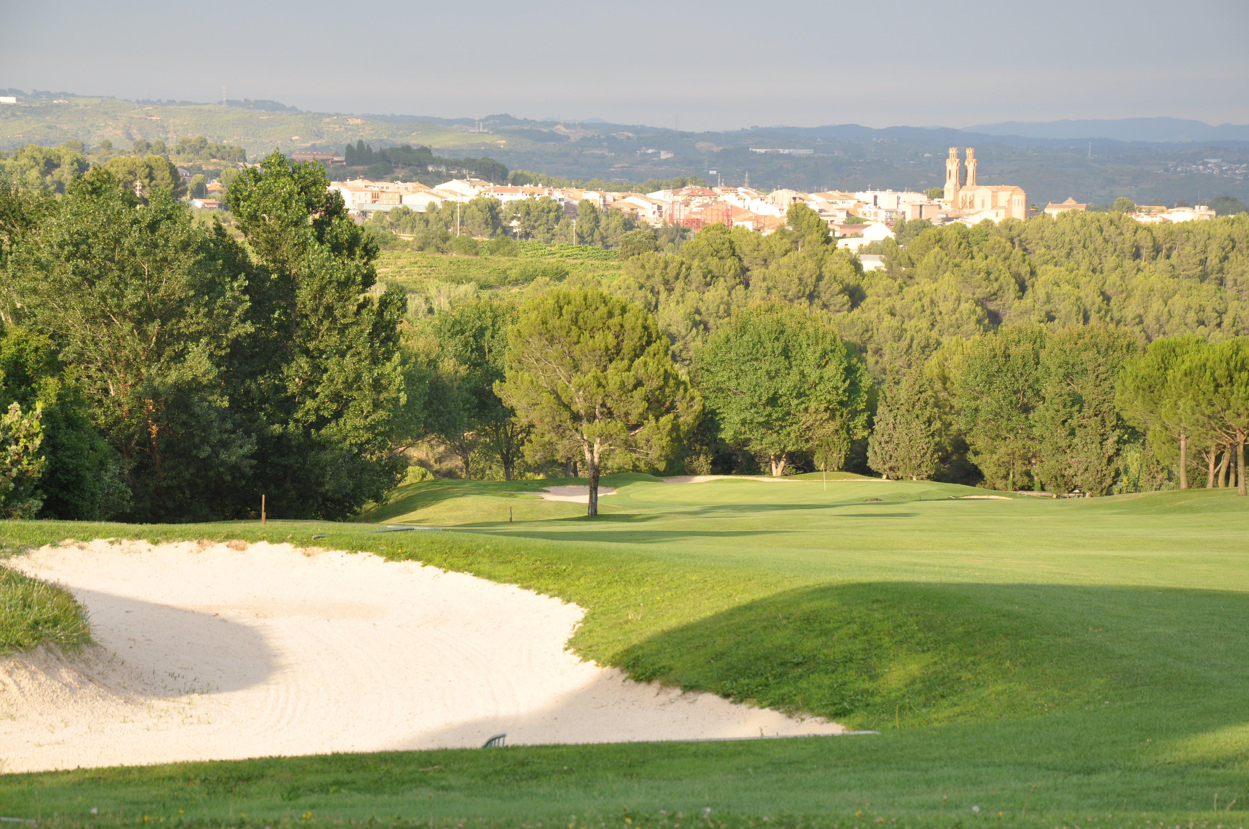 A view on the first hole of "Club de Golf de Barcelona". On the background Sant Esteve Sesrovires